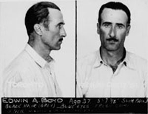 Police picture of bank robber Edwin Alonzo Boyd.